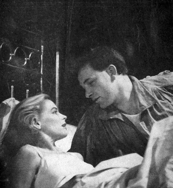 Photo of Richard Burton and Dorothy McGuire in the 1951 presentation Legend of Lovers. A search for renewal was done at using the title "Playbill". The earliest renewal was for text published in 1960. The article was written by Lorraine Hansberry regarding the work A Raisin in the Sun. There were no earlier renewals for anything published by Playbill. There's no evidence of continuing copyright on the issue.